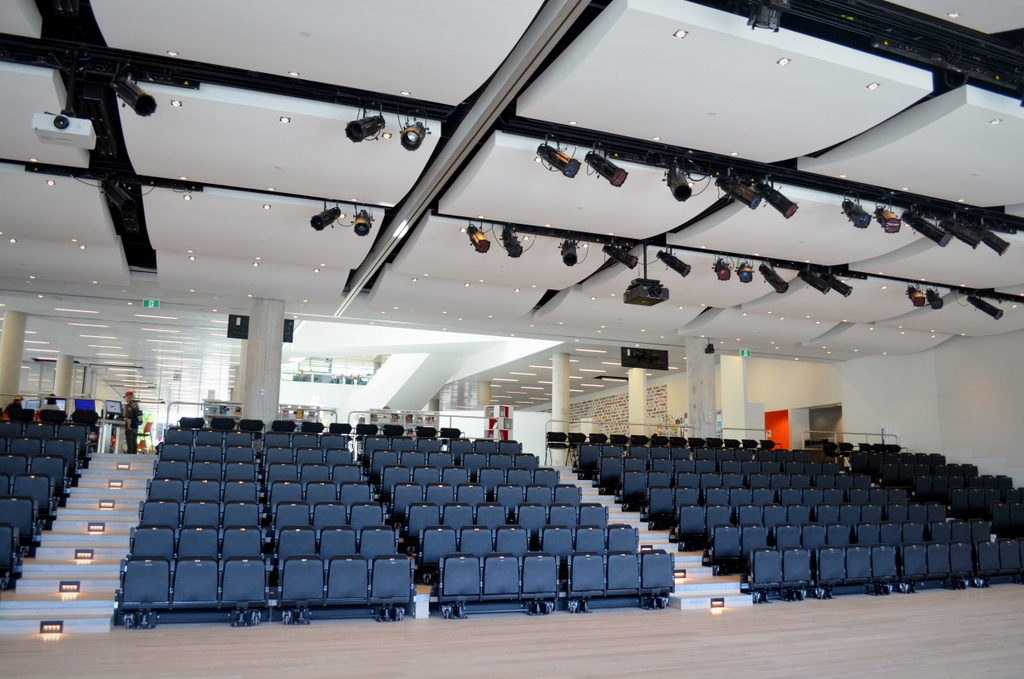 Paul O'Regan Hall, Halifax Central Library.